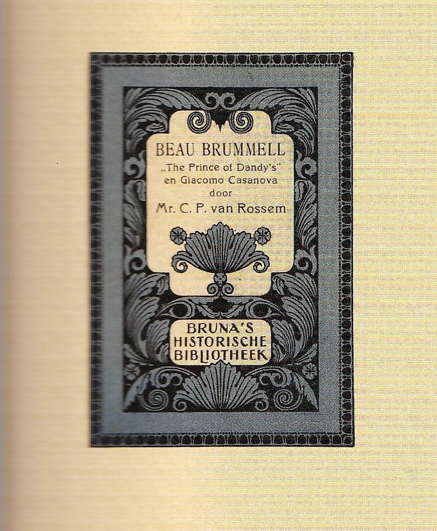 Cornelis Petrus van Rossem: Beau Brumell, "The Prince of Dandy's" en Giacomo Casanova, Bruna's Historische Bibliotheek, 1914. Book cover.